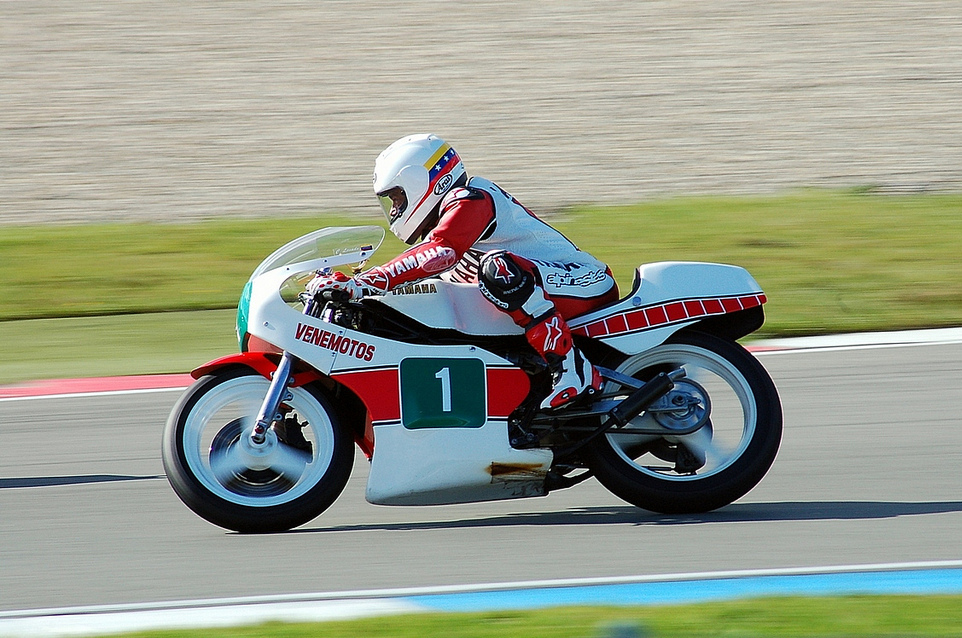 Carlos Lavado on a Yamaha TZ250 at the 2010 Centenial Classic TT at Assen.